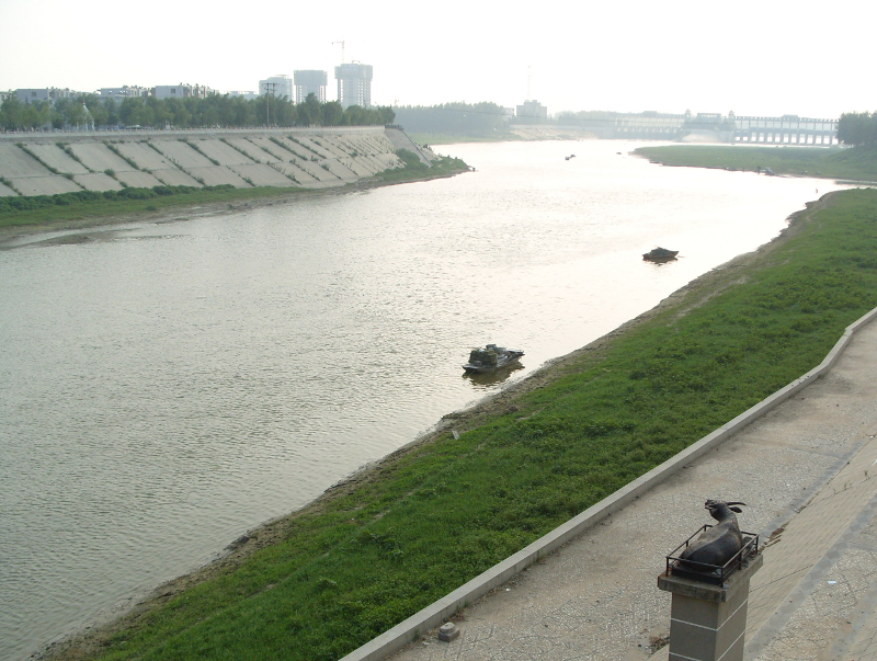 the intersection of two ancient waterways, Jialu River and Shaying River, now located at the center of Chuanhui District of Zhoukou City